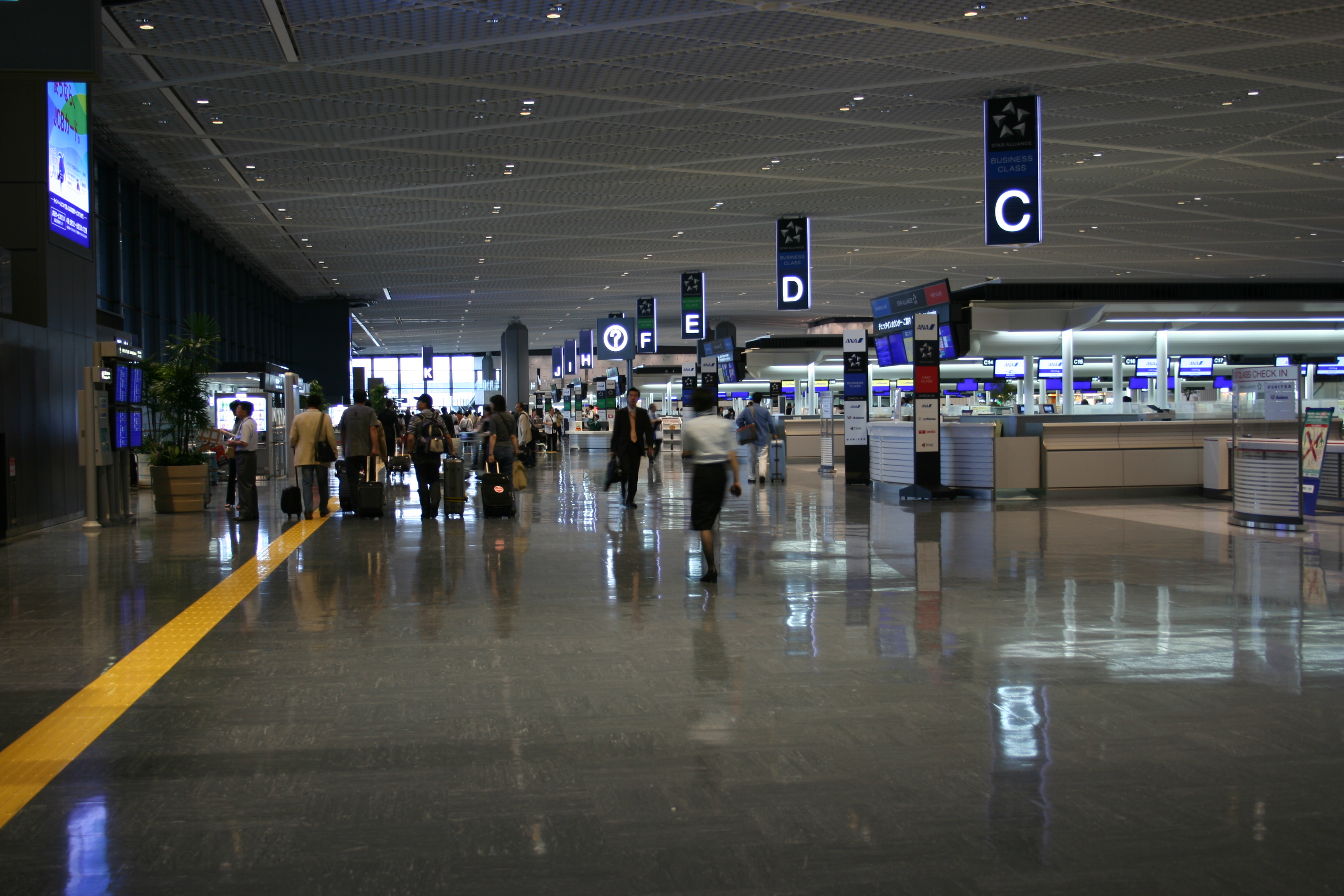 Departure floor of Narita International Airport(Japan) terminal 1, south wing.